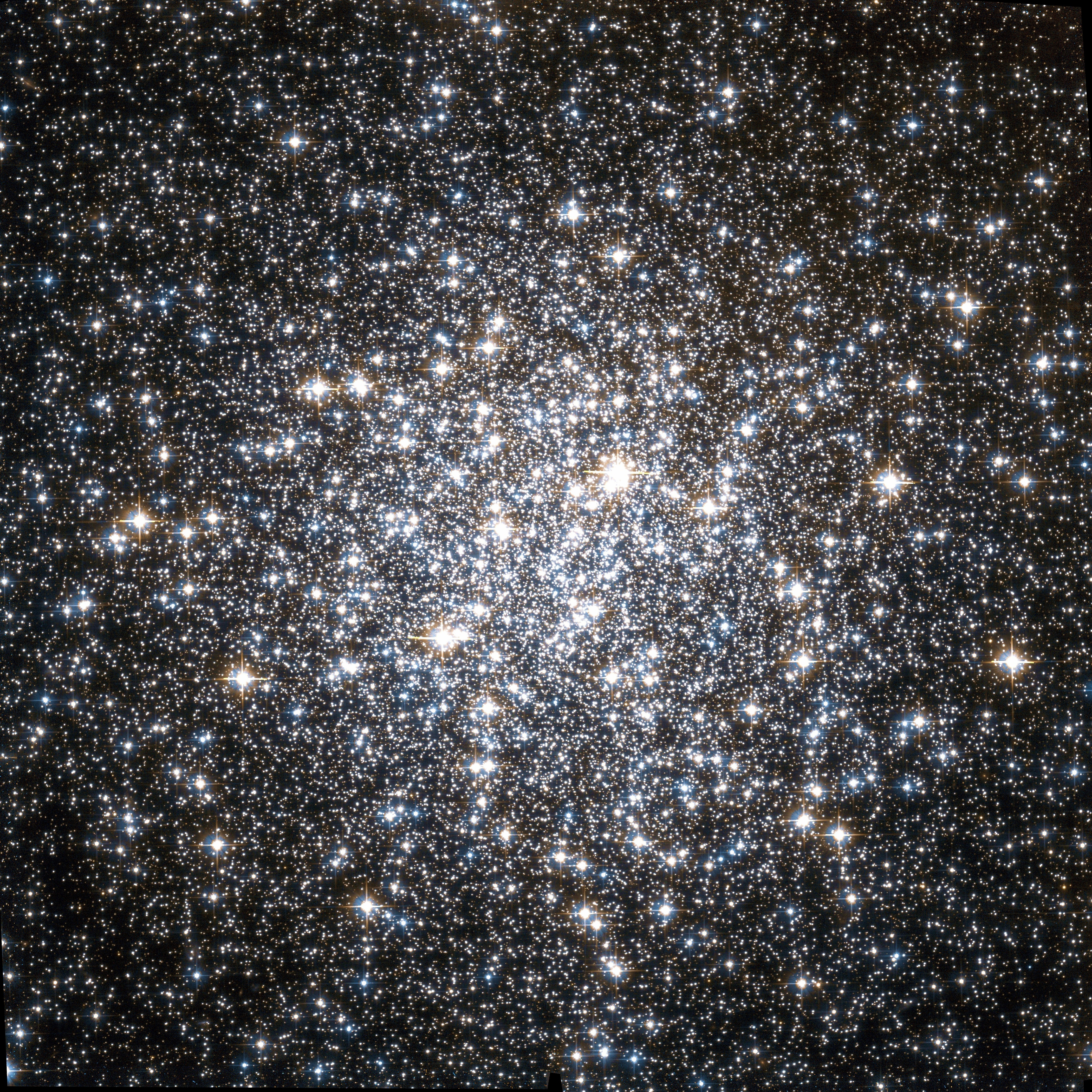 NGC 6723 globular cluster by Hubble Space Telescope; 3.5′ view